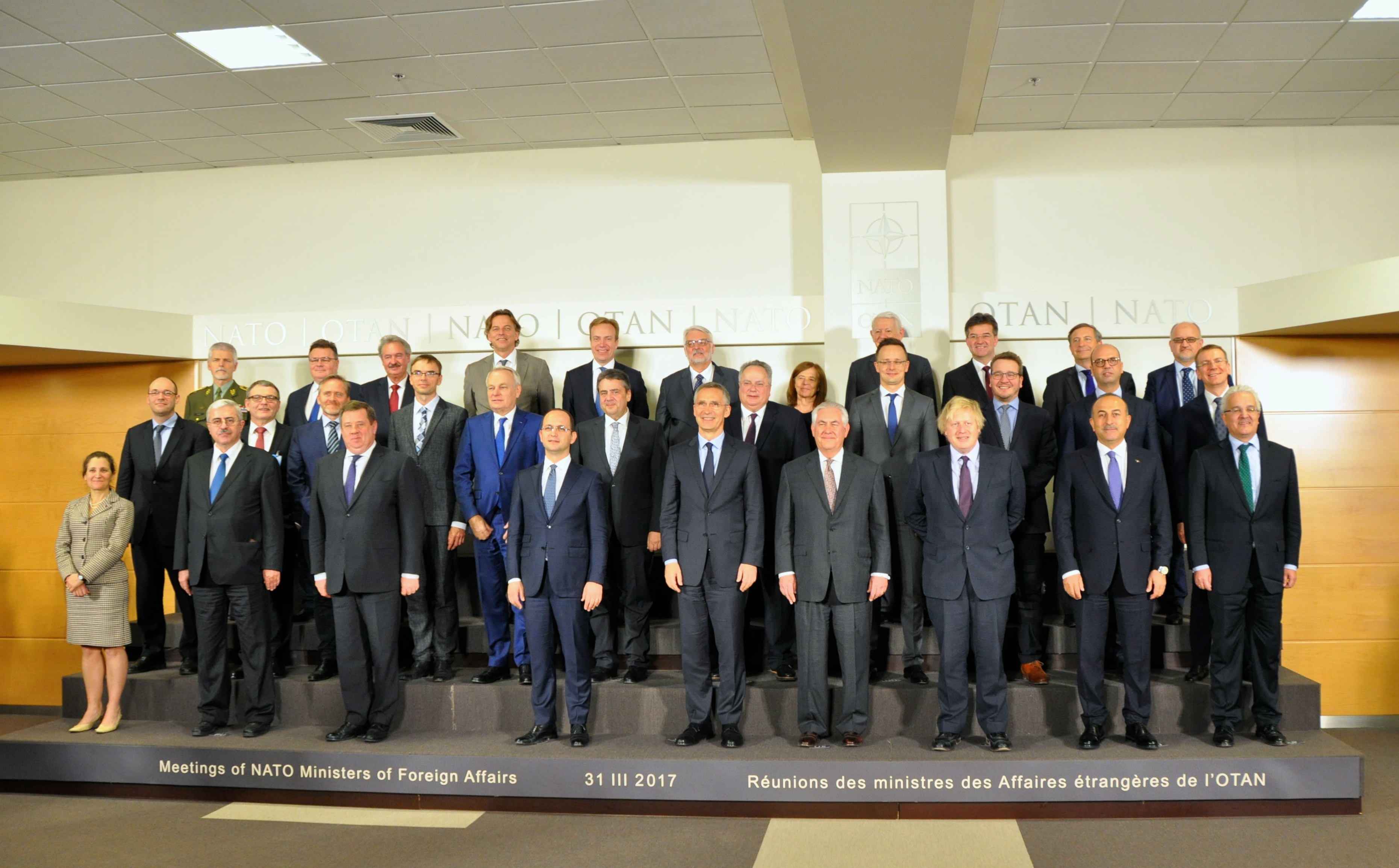 U.S. Secretary of State Rex Tillerson stands with NATO colleagues for family photo at the NATO Foreign Ministerial in Brussels, Belgium, on March 31, 2017. [State Department photo/ Public Domain]